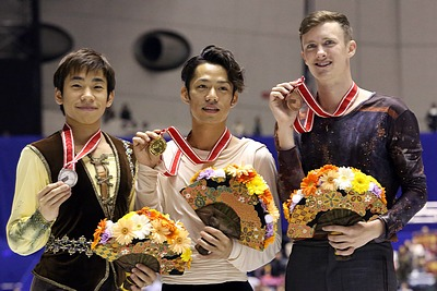 The Mens podium at the 2013 NHK Trophy. From left: Nobunari Oda(2nd), Daisuke Takahashi(1st),Jeremy Abbott(3rd) .